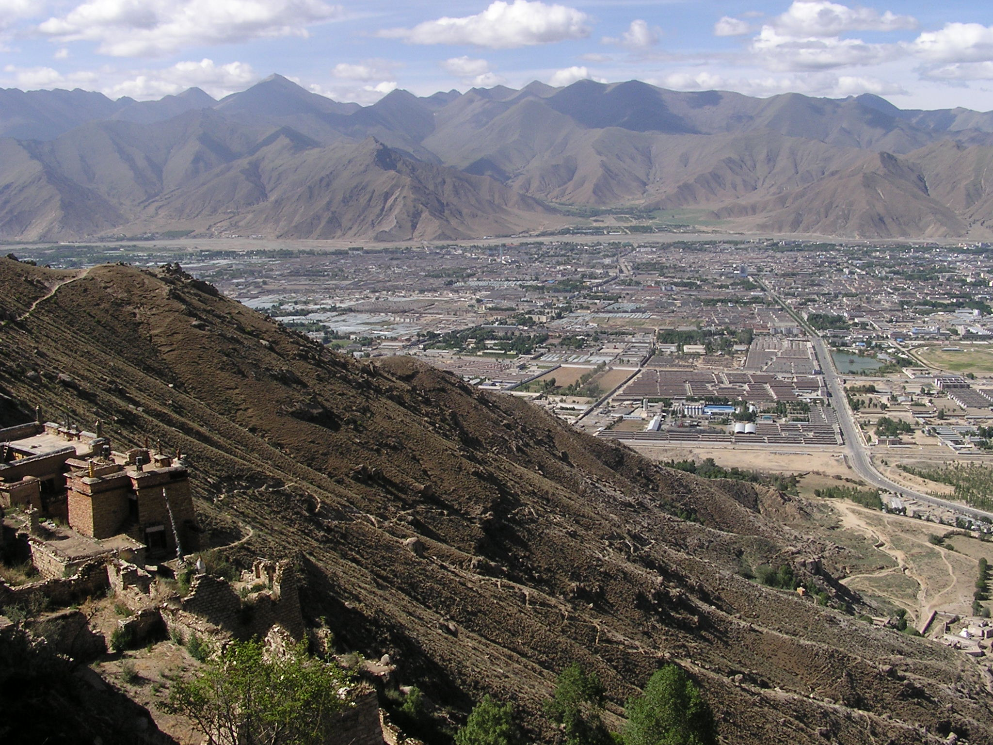 Retreat house near Sera.